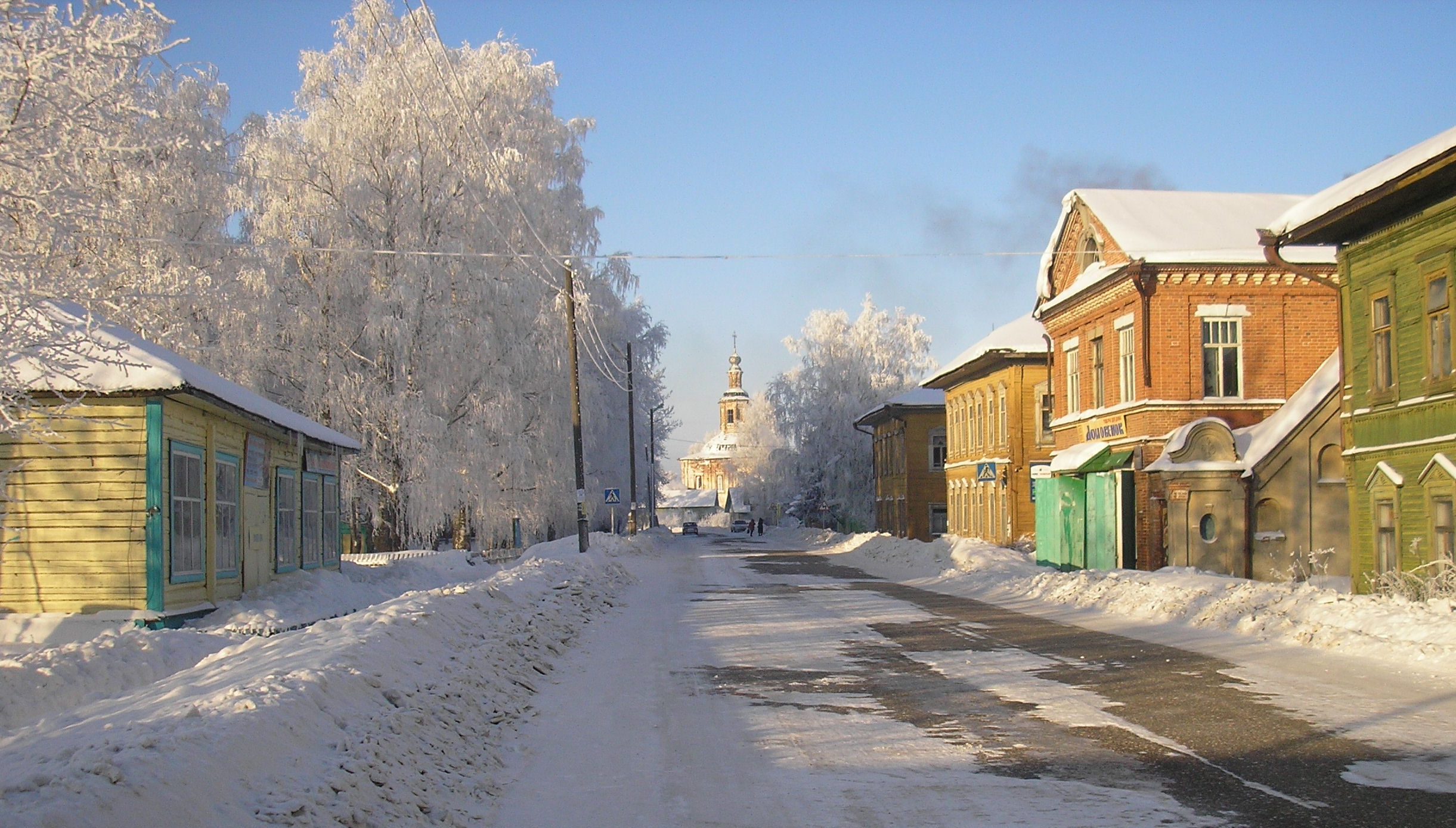 Cherevkovo, rural settlement in Arkhangelsk region, Russia